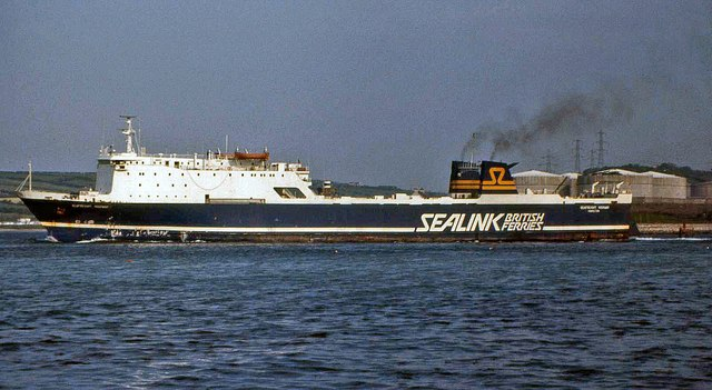 The "Seafreight Highway" at Larne The “Seafreight Highway” was one of many relief ferries to have served n the Larne-Stranraer route.